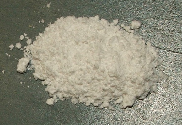 Sodium silicate